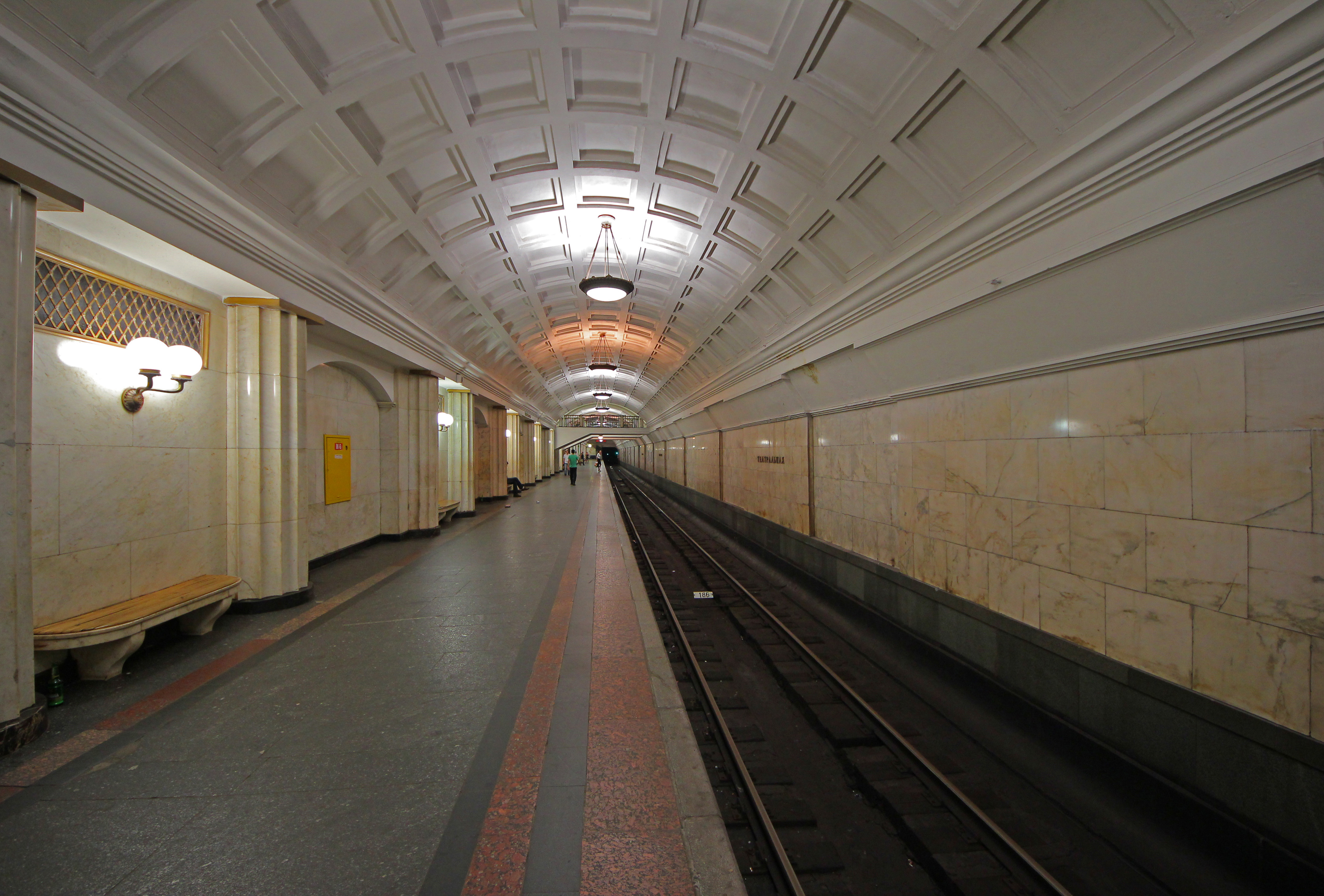 Metro station Teatralnaya in Moscow (architect: Ivan Fomin (1872-1936)). The image shows one of the both tracks.